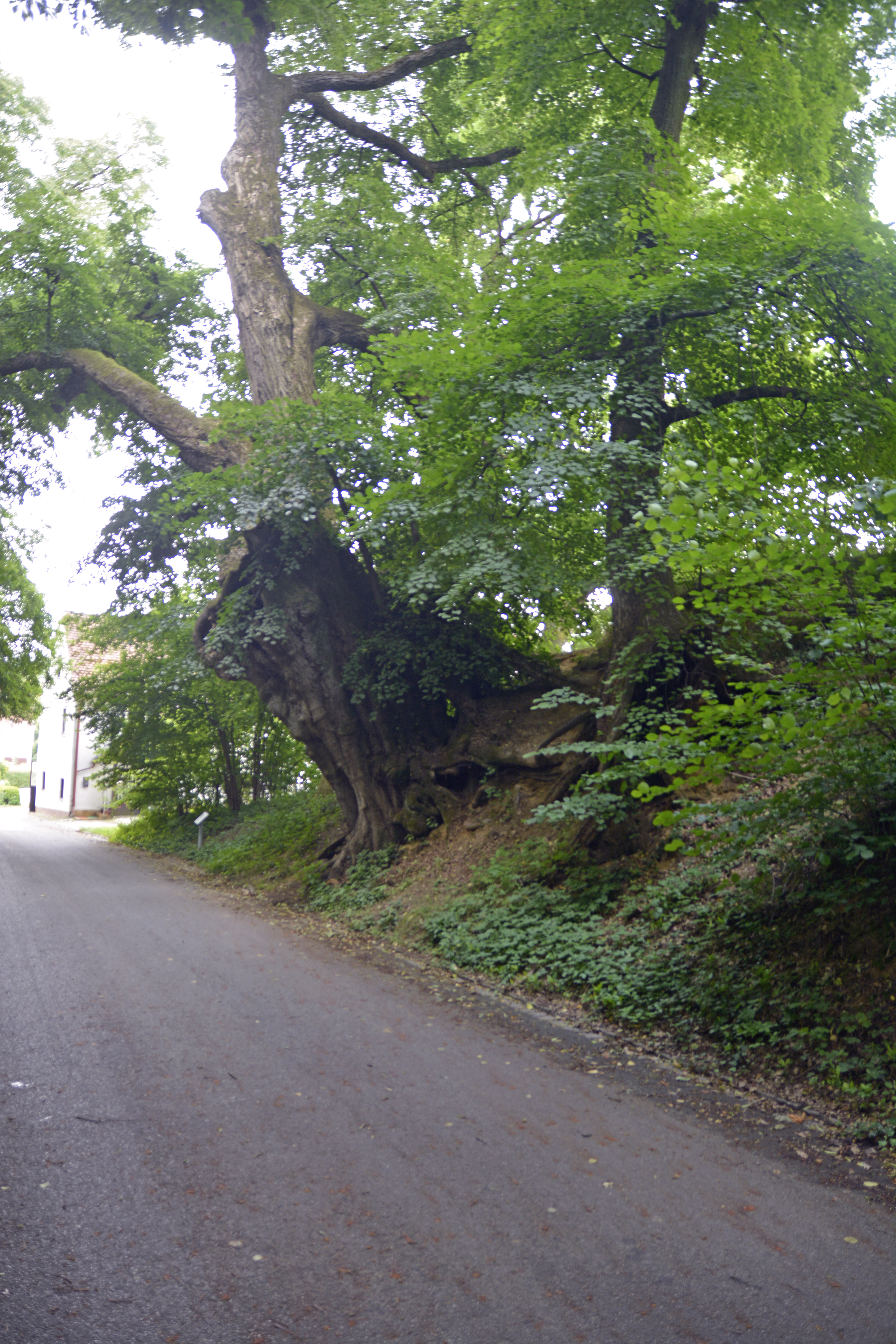 Hollow Linde in Obermarbach